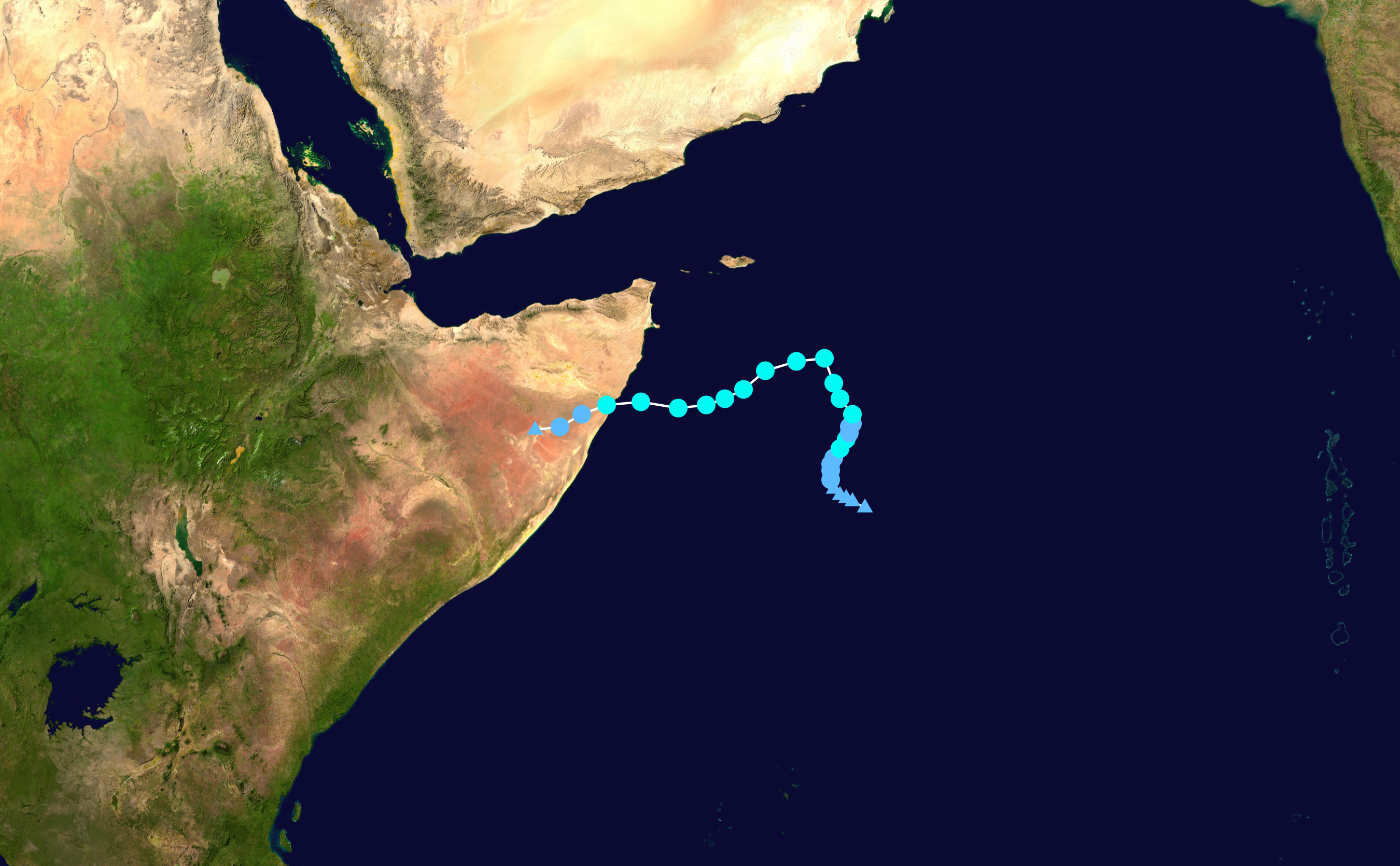 Track map of Cyclonic Storm Pawan of the 2019 North Indian Ocean cyclone season. The points show the location of the storm at 6-hour intervals. The colour represents the storm's maximum sustained wind speeds as classified in the Saffir–Simpson scale (see below), and the shape of the data points represent the nature of the storm, according to the legend below. Saffir–Simpson scale Tropical depression≤38 mph≤62 km/h Category 3111–129 mph178–208 km/h Tropical storm39–73 mph63–118 km/h Category 4130–156 mph209–251 km/h Category 174–95 mph119–153 km/h Category 5≥157 mph≥252 km/h Category 296–110 mph154–177 km/h Unknown Storm type Tropical cyclone Subtropical cyclone Extratropical cyclone / Remnant low / Tropical disturbance / Monsoon depression